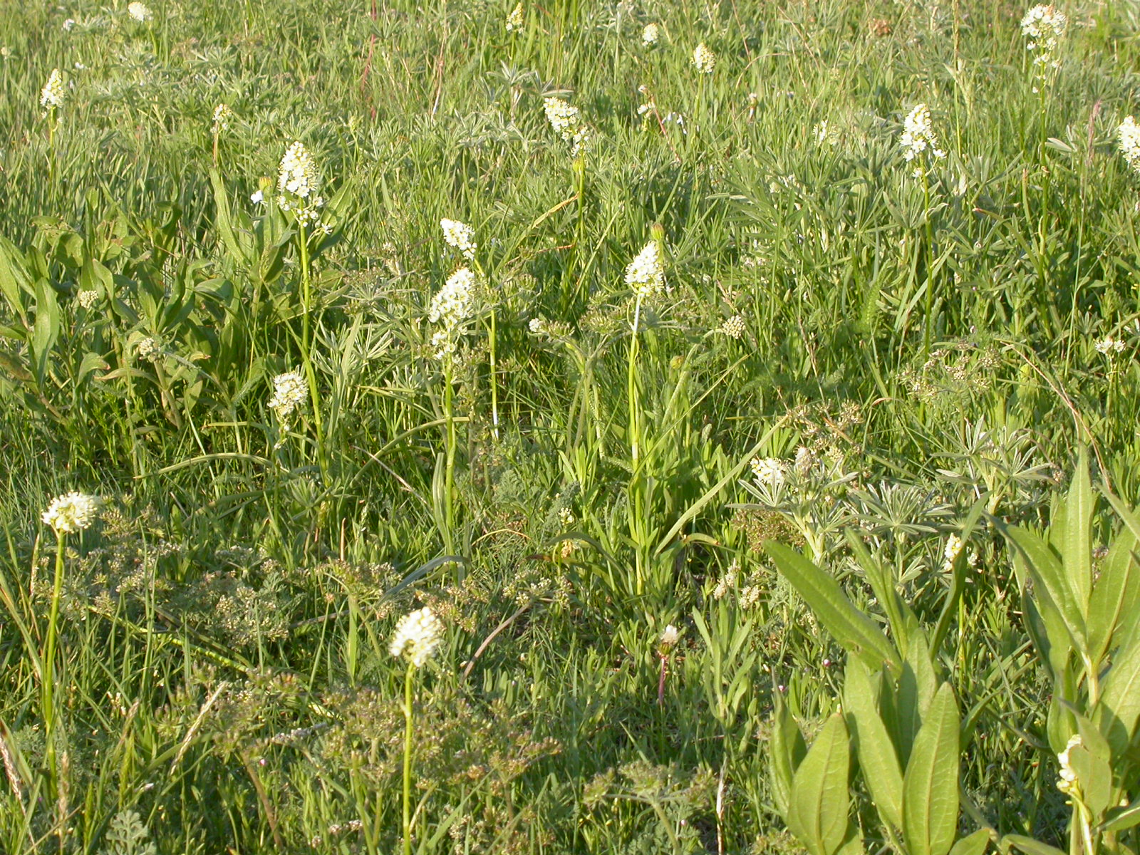 Deathcamas inhabits sagebrush vegetation but perhaps in the most grassy of settings (e.g., more in mountain than Wyoming big sagebrush settings).